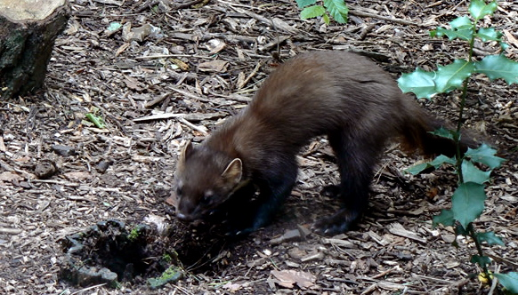 A Pine Marten (Martes martes) taken At the Wildwood Trust, Kent UK